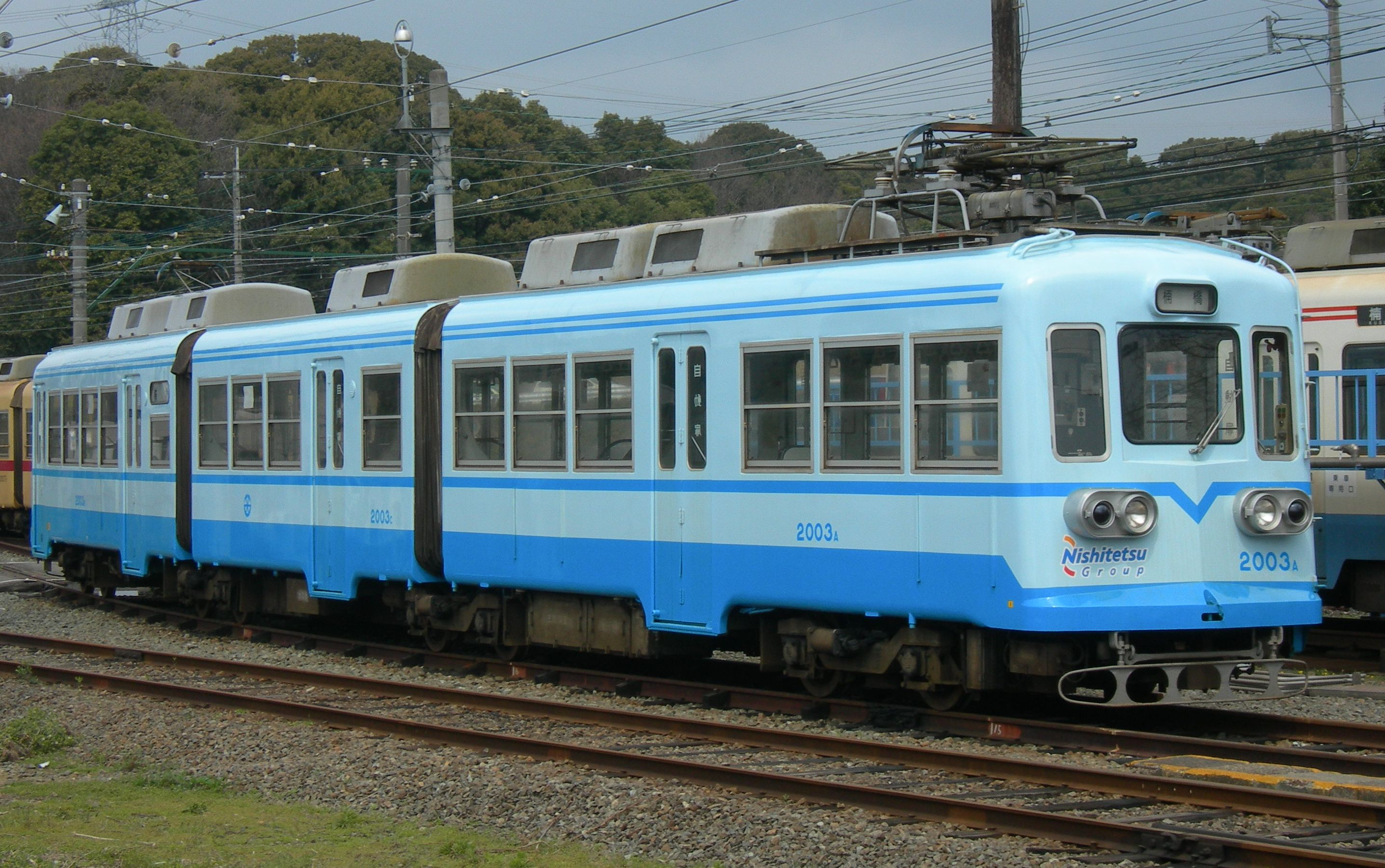 Chikuho Electric Railroad 2000 series EMU set 2003 at Kusubashi Station, in Fukuoka, Japan